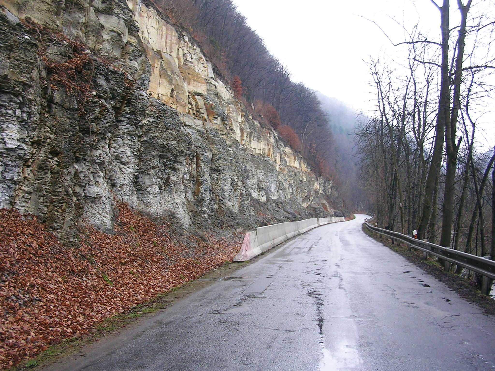 The road between Perná (Orlické Podhůří) and Brandýs nad Orlicí, the Czech Republic.